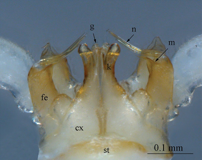 Gonopods of Sinocallipus steineri (Diplopoda, Callipodida), anterior view. Abbreviations: cx= coxa; fe= femoroid; g= coxal process g; k= coxal process k; m= femoroidal subfalcate process; n= femoroidal acicular process; st= sternum